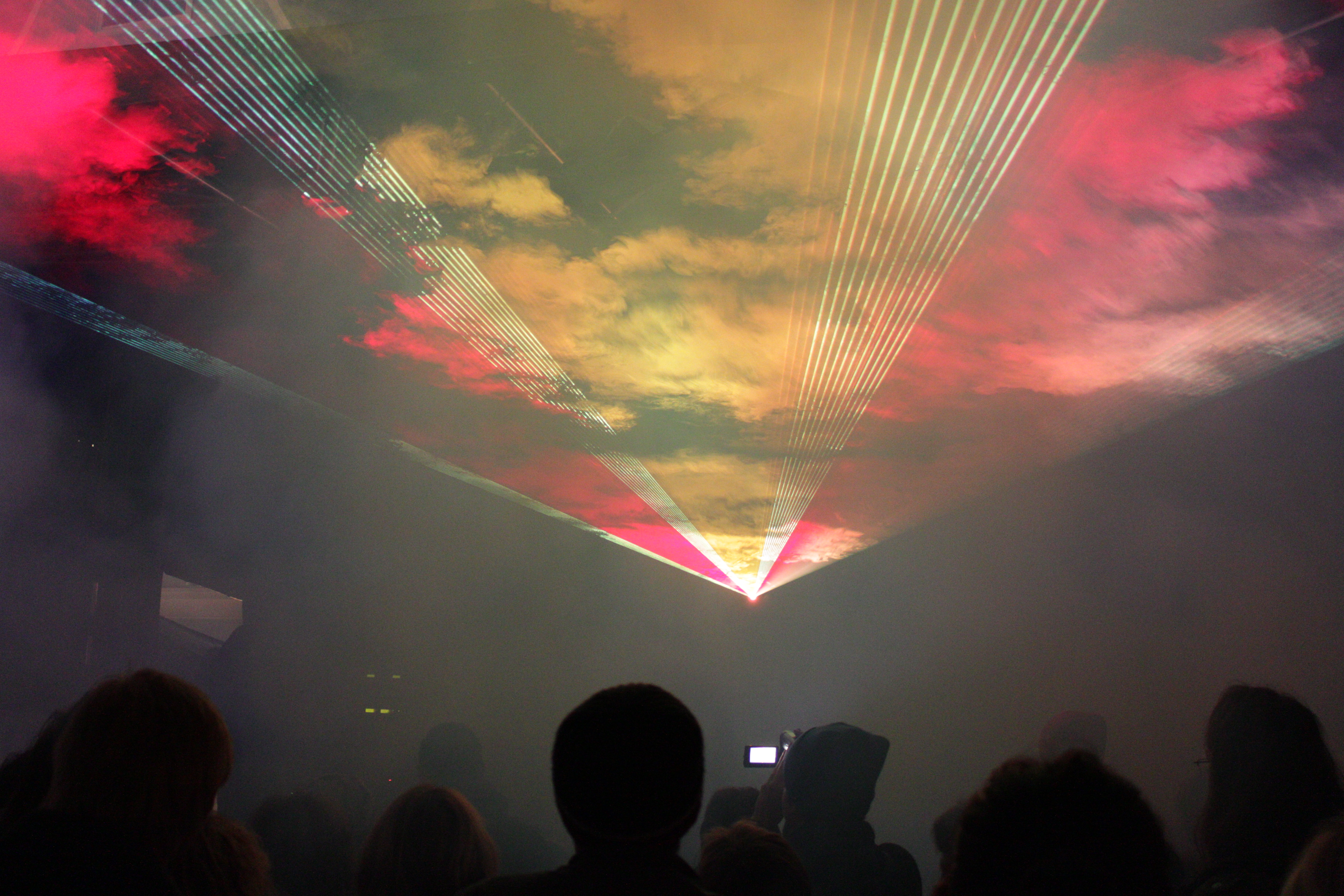 A laser light show during an annual fall event in Rostock, the "Rostocker Lichtwoche".